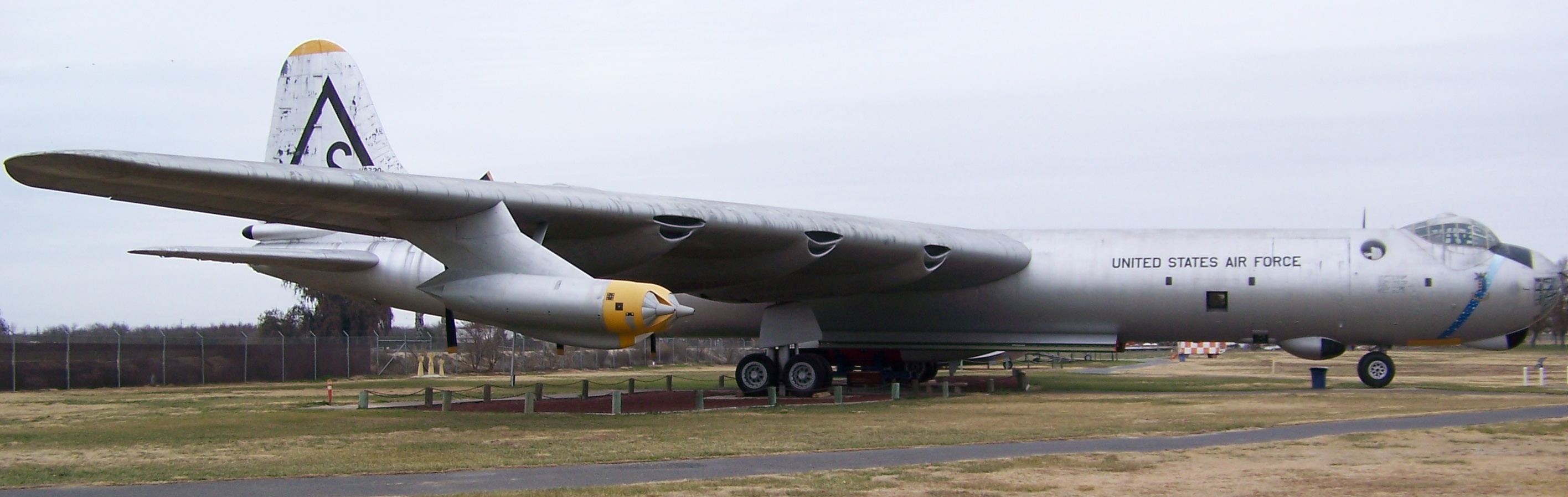 A Convair RB-36H Peacemaker on display at the Castle Air Museum in Atwater, California.